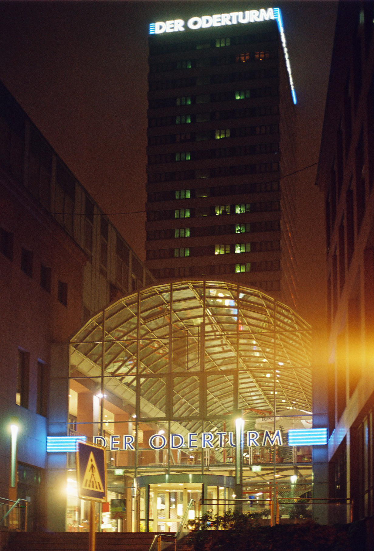 Skyscraper “Oderturm” in Frankfurt (Oder), Germany at night.